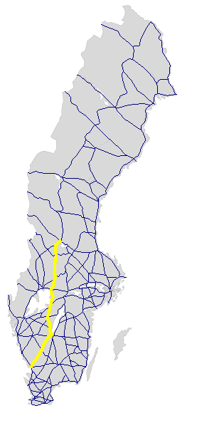 Map of Swedish riksväg (road) 26